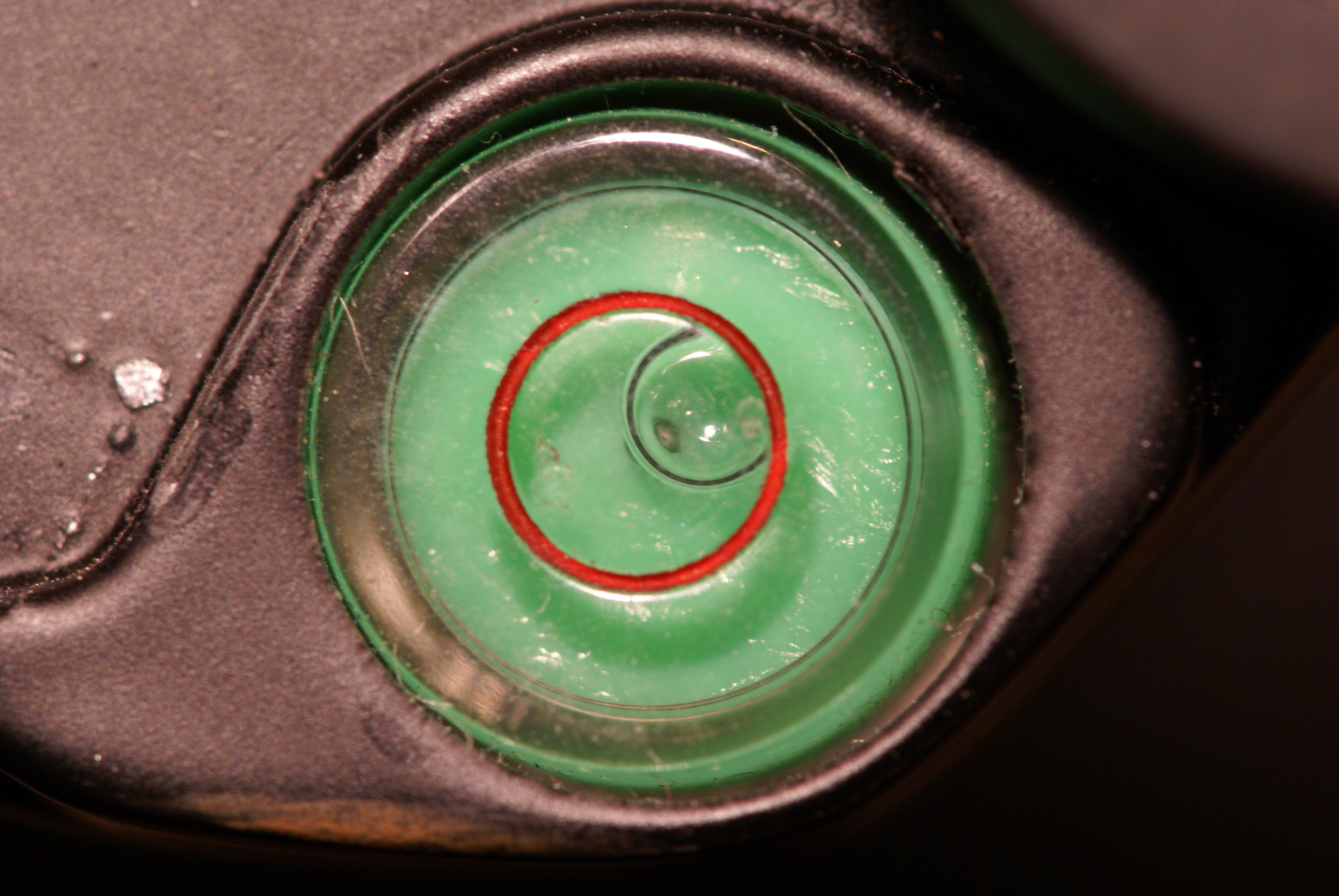 A bull's eye level with green backdrop, with the off-centered bubble showing an unlevel position.